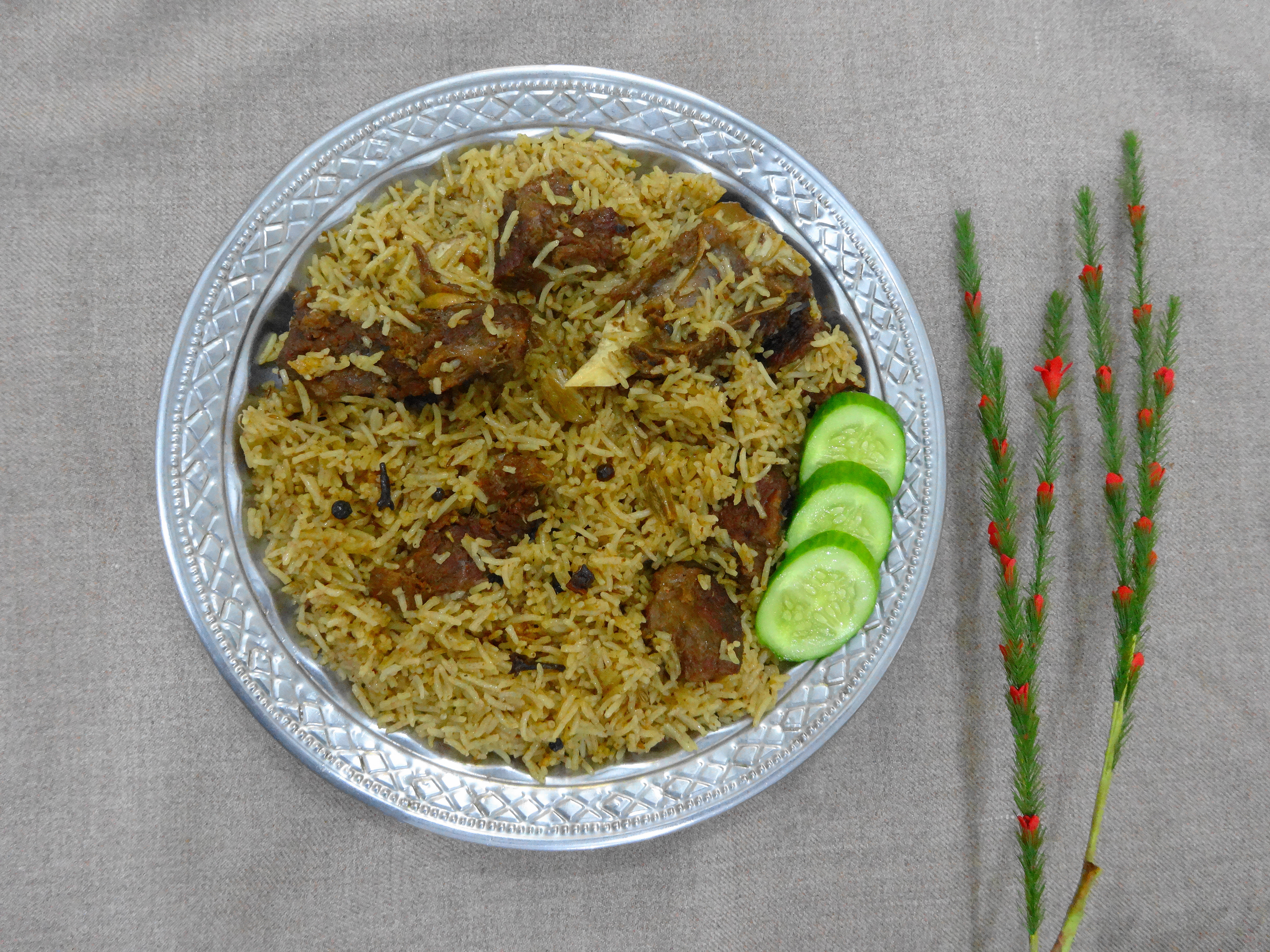 Cholistan is a dessert in South of Punjab, It is also Known as Rohi. It is popular for its camels, dessert Car safari. چولستانی اونٹ کے گوشت کی بریانی